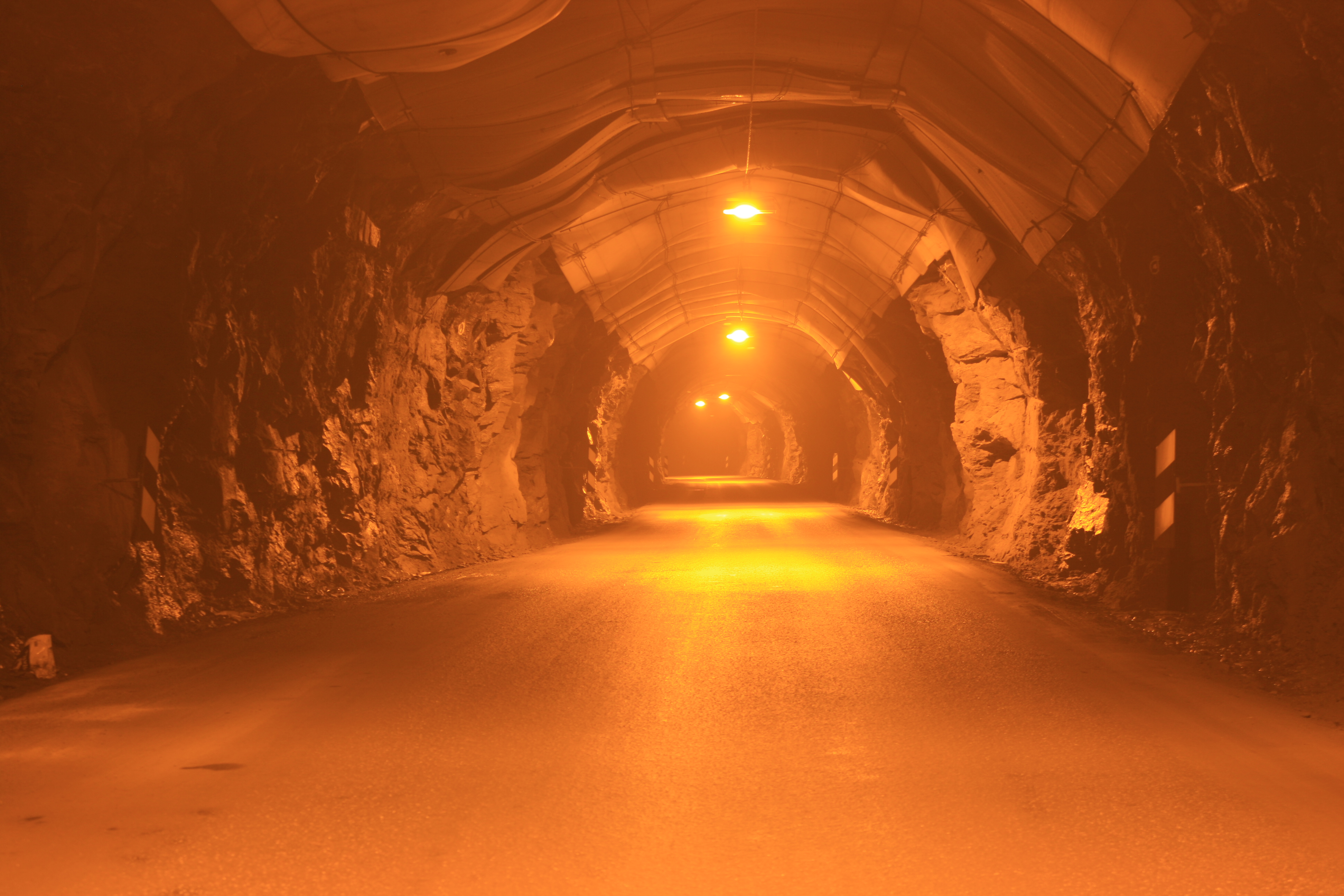 Bjørgatunnelen (road tunnel) - Inside